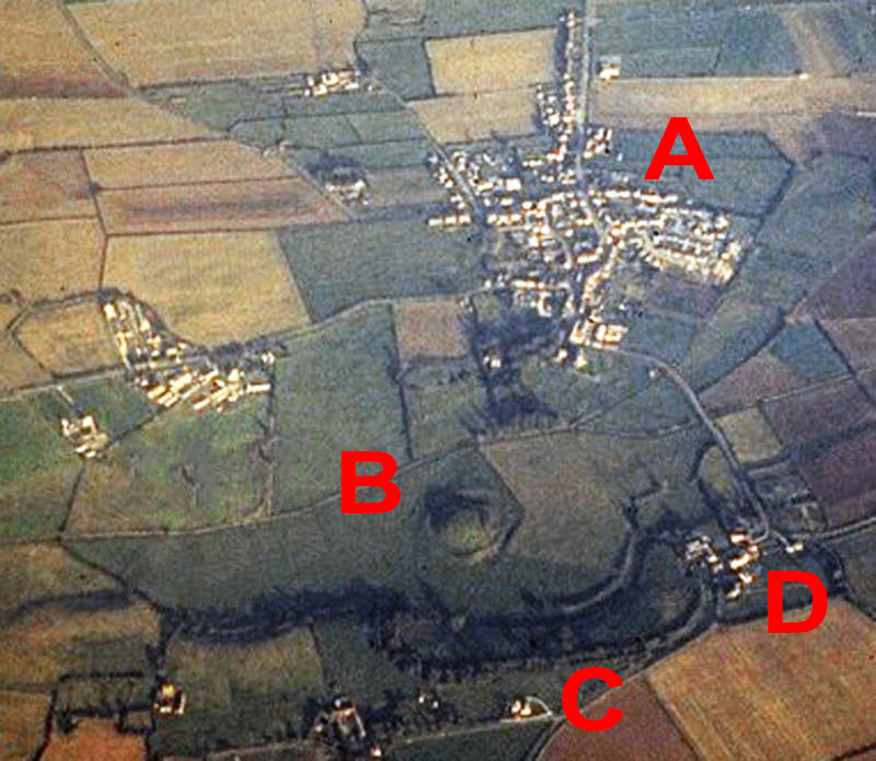 Aerial photograph, cleaned up and labelled by hchc2009.A – village of SkipseaB and C – castle motte and baileyD – Skipsea Brough